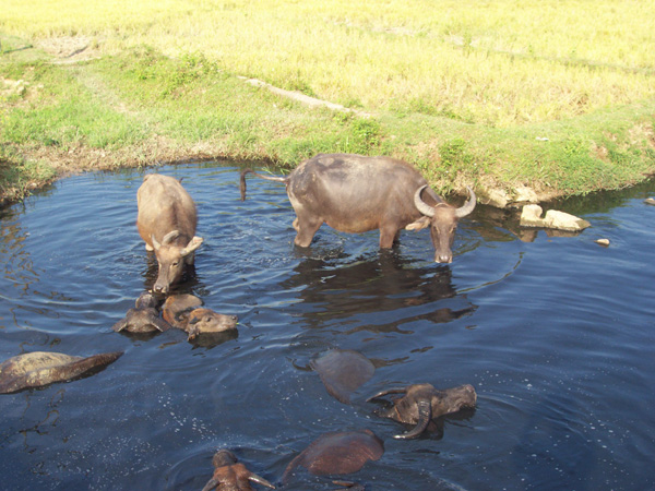 Water buffalos bathing in a sinkhole in Vietnam.